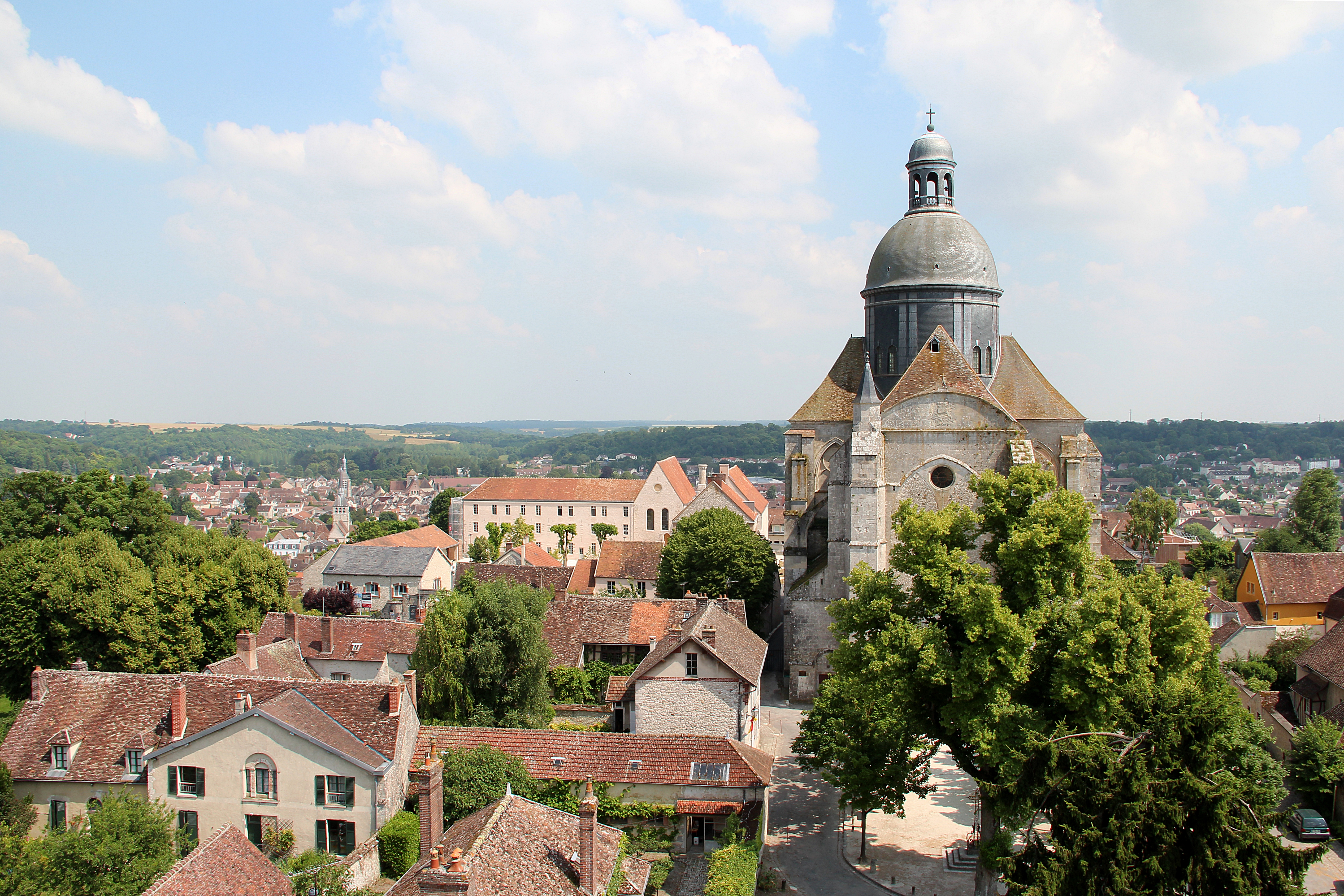 Provins (Île-de-France), the collegiate Church of Saint-Quiriace (12th century) in the upper town, seen from the upper gallery of the César tower.